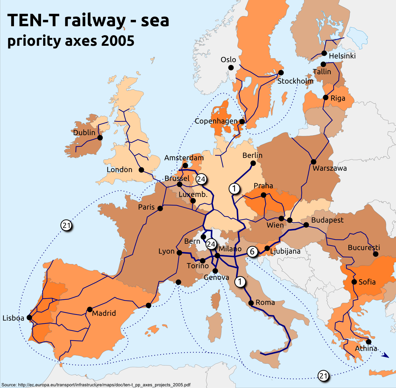 TEN-T railway